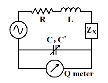 Use of Q meter in a circuit to test impedance.